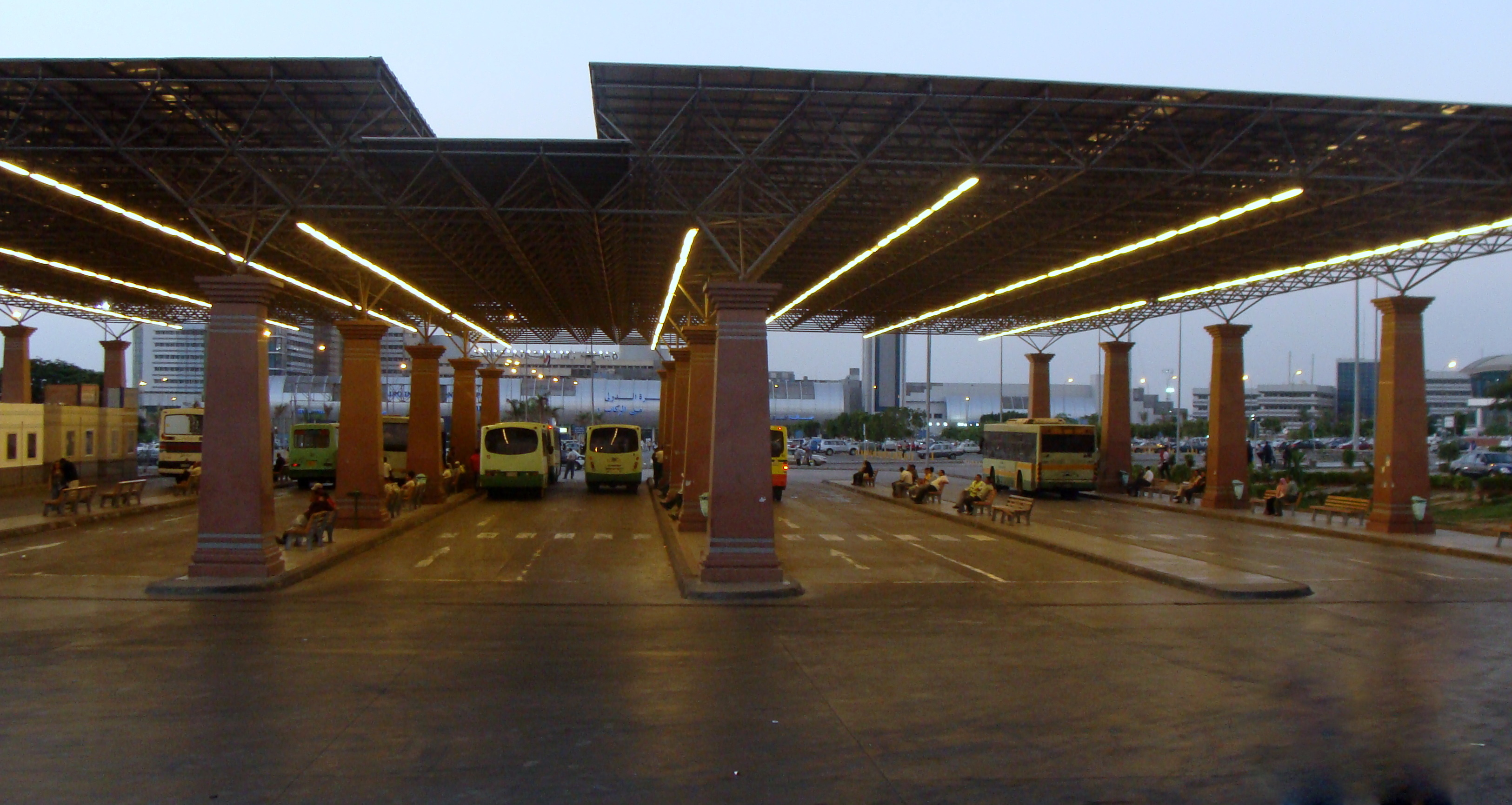 Bus Stop in Cairo international airport.